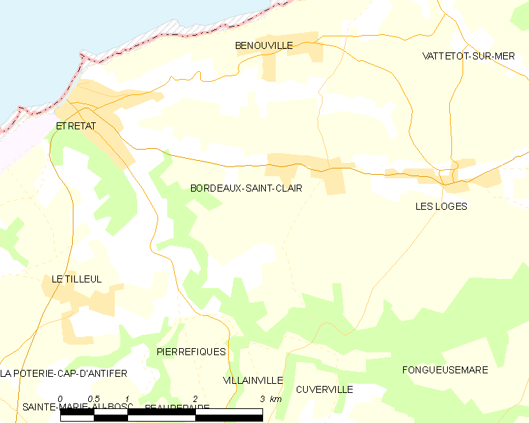 Map of French municipality Bordeaux-Saint-Clair